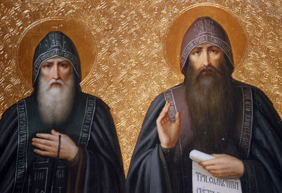 An icon at Valamo Monastery